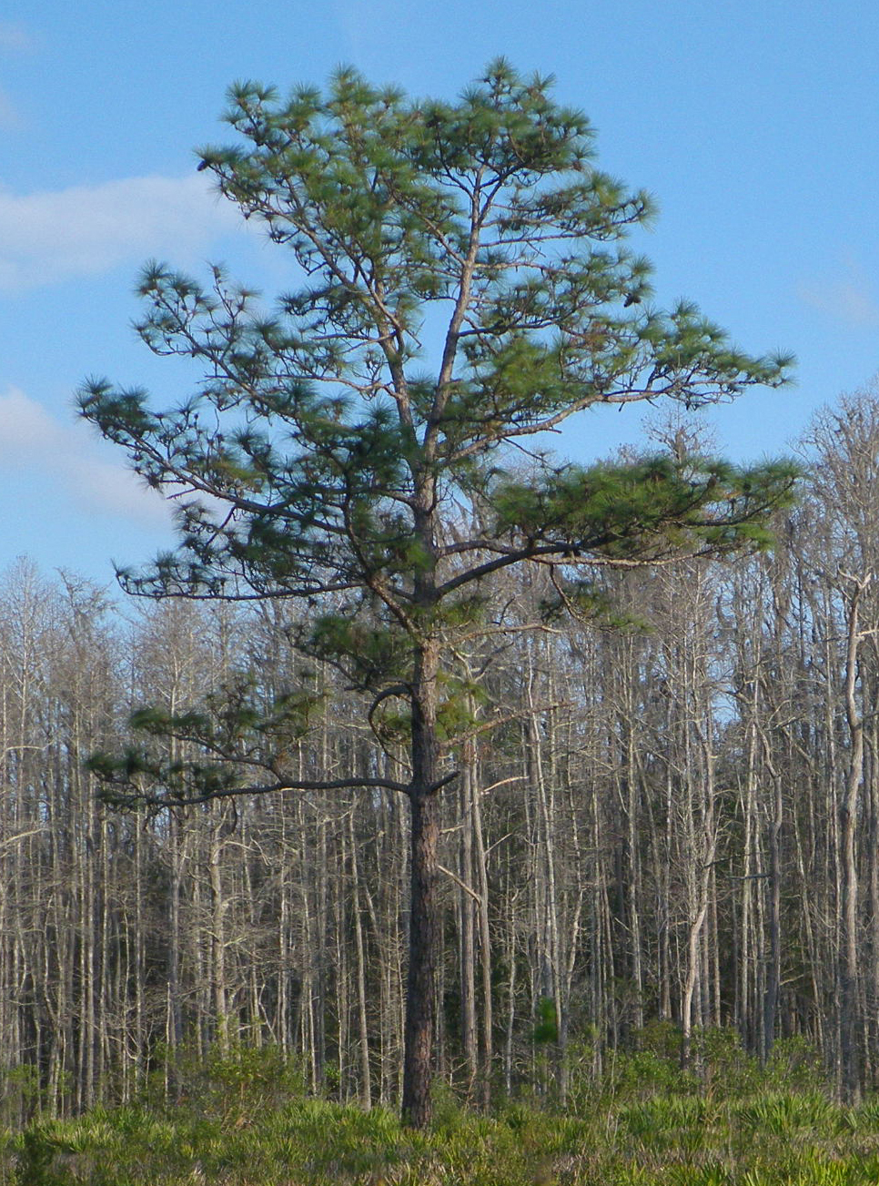 Longleaf Pine Pinus palustris, Jay B. Starkey Wilderness Park, Florida